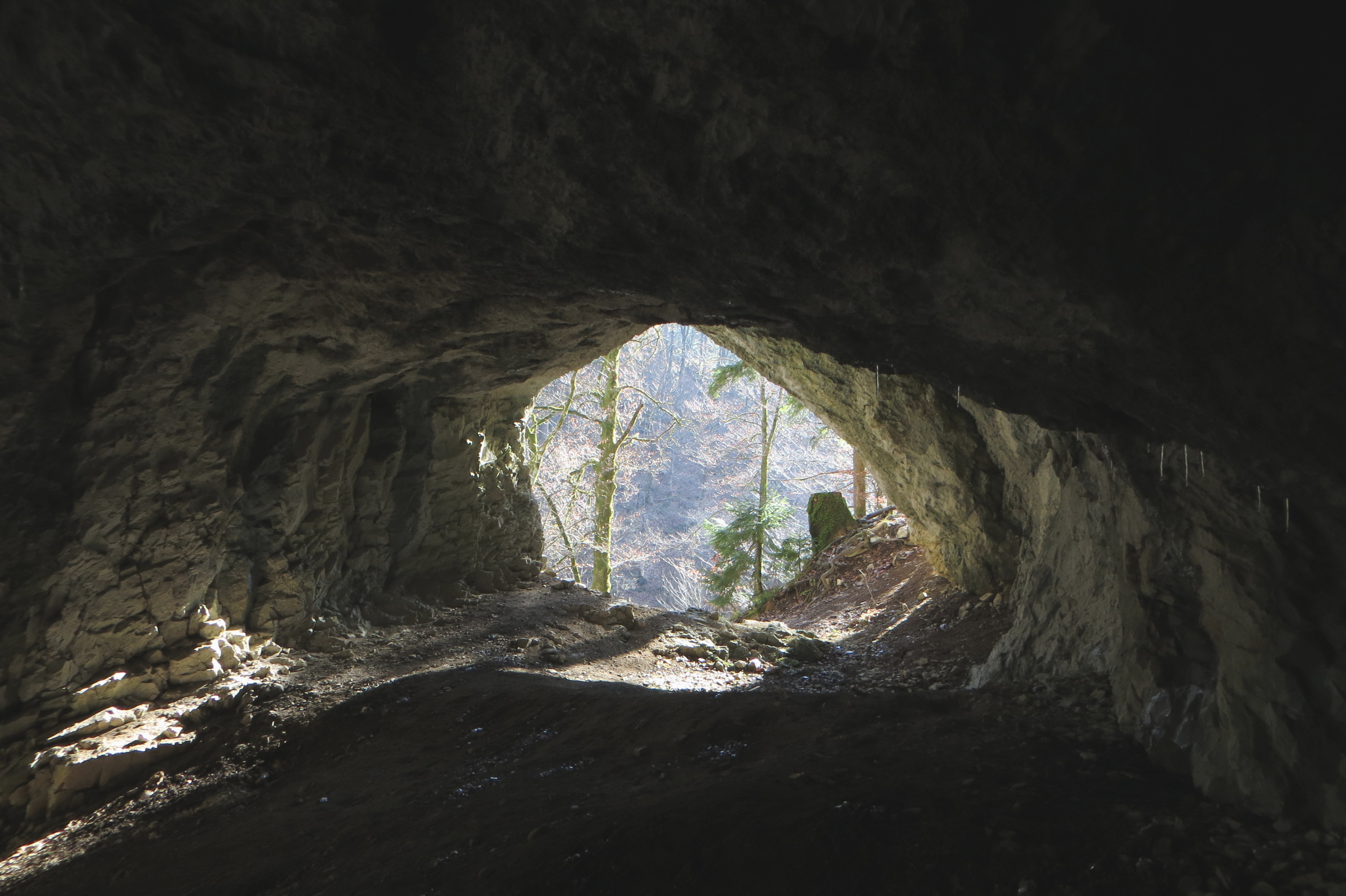 Matjaž's Chambers Cave (Sln. Matjaževe kamre) in Zavratec, Municipality of Idrija, Slovenia